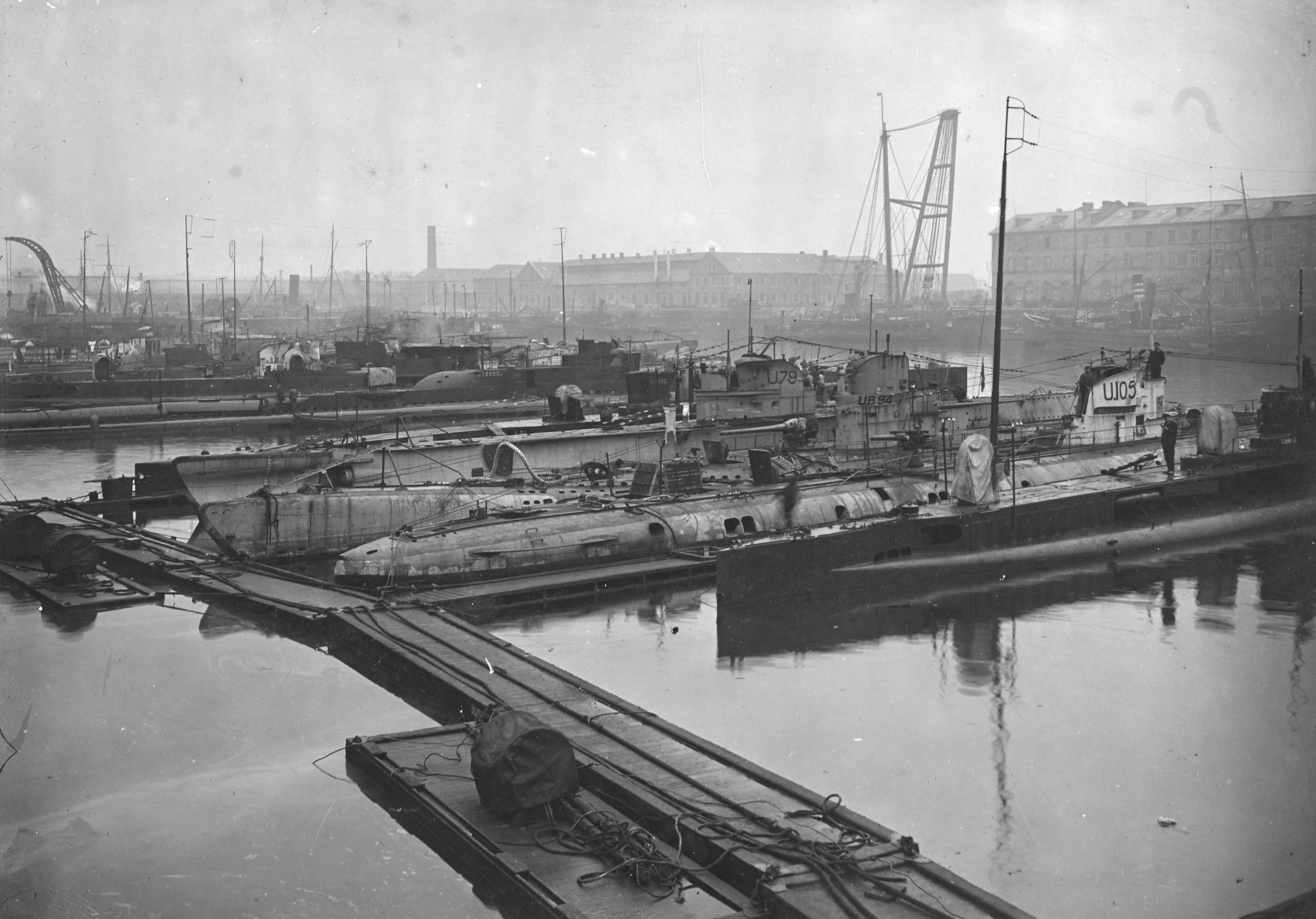 Title: French Submarines at Cherbourg Caption: Right to left: CORNELIE 1913-26, ex-German U-105 (French JEAN AUTRIC, 1917-37), ex-German UB-94 (French T. SCHILLEMANS 1918-35), ex-German U-79 (French VICTOR REVEILLE 1916-33), NIVOSE 1912-21, JOESSEL 1917-36, CLORINDE 1916-26, and an unidentified ex-German unit.